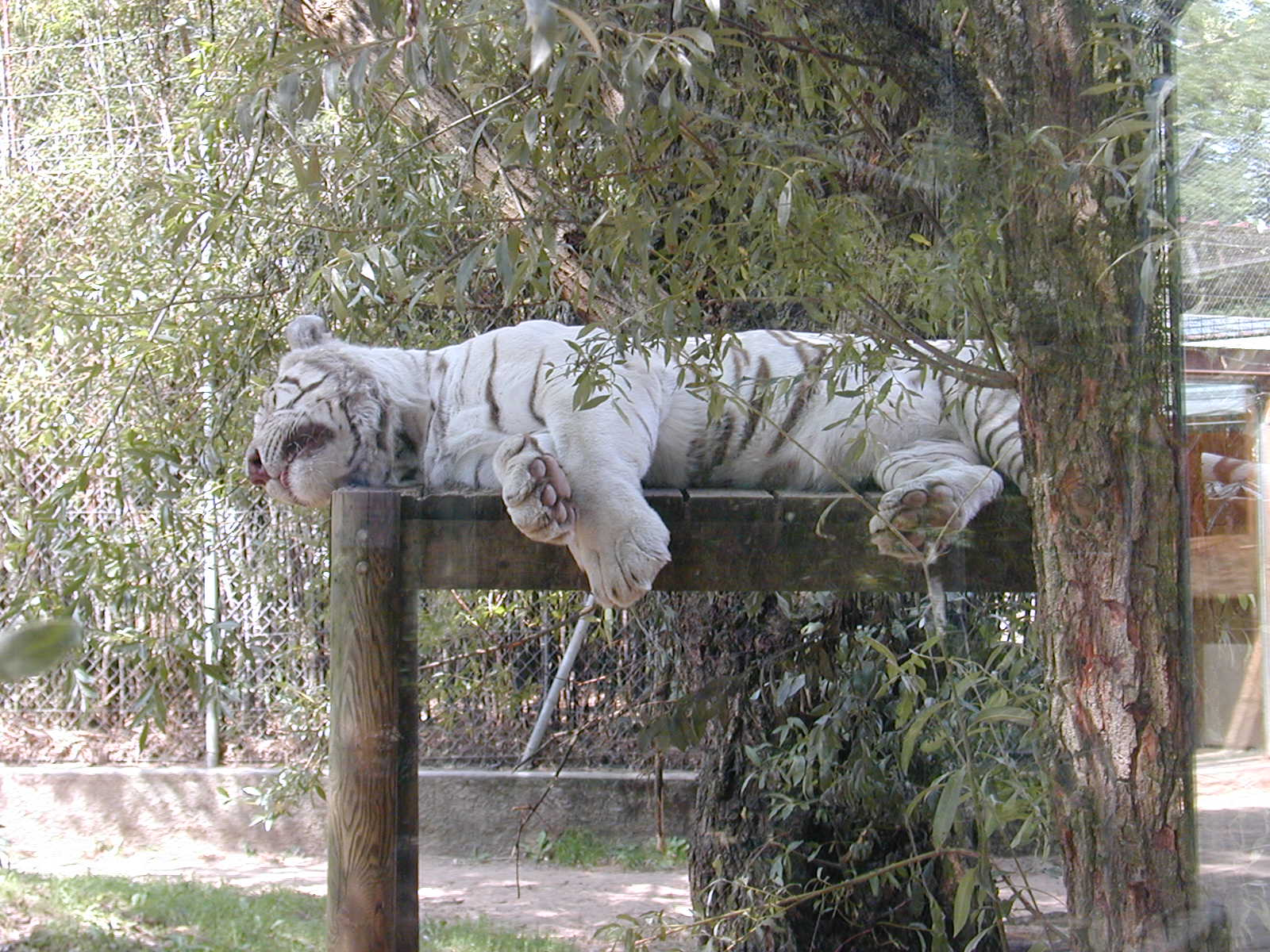 White tiger (Panthera tigris) at the Touroparc zoological garden in Romanèche-Thorins (France).